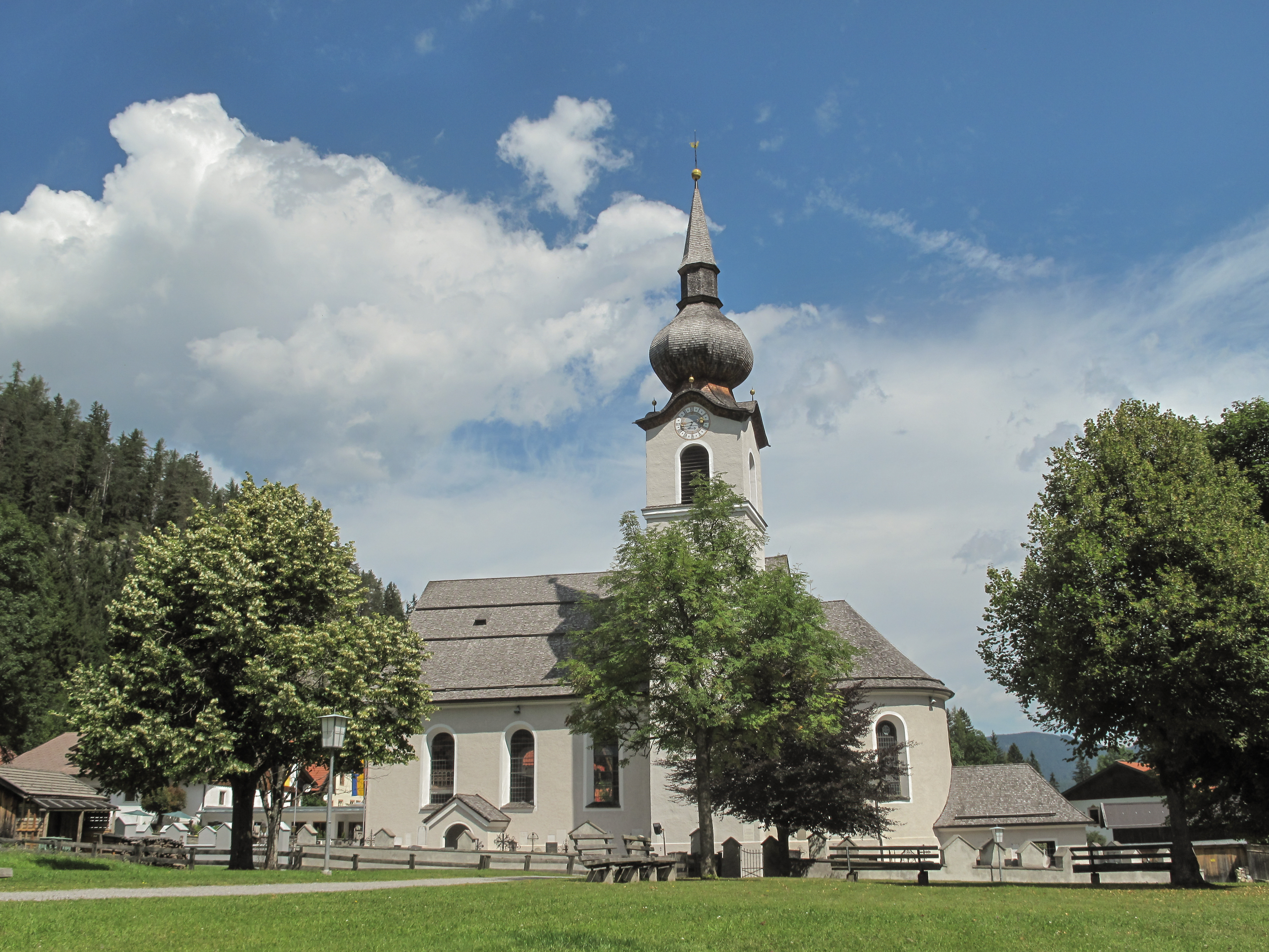 Biberwier, church: Pfarrkirche zum Sankt Josef